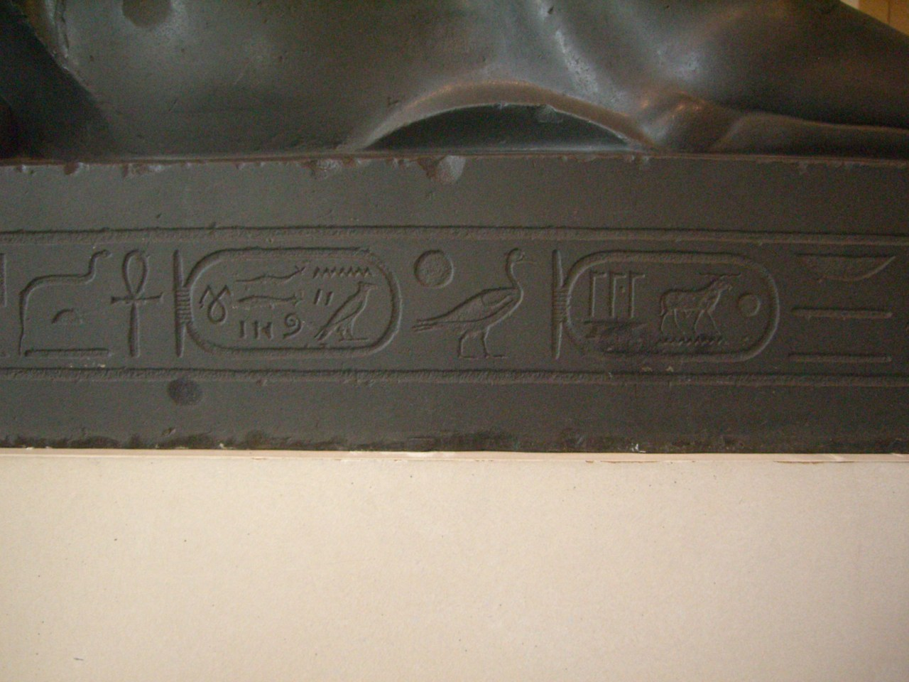 Nepherites I, 29th dynasty.